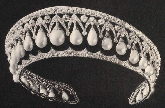 Диадема в форме кокошника была заказана императором Николаем I для своей жены Александры Федоровны в 1841 году. Изготовлена ювелиром Карлом Эдуардом Болиным из платины, бриллиантов и крупных каплевидных жемчужин. После революции продана на запад, в настоящее время в частном владении. В Алмазном фонде хранится почти точная копия утраченной диадемы.